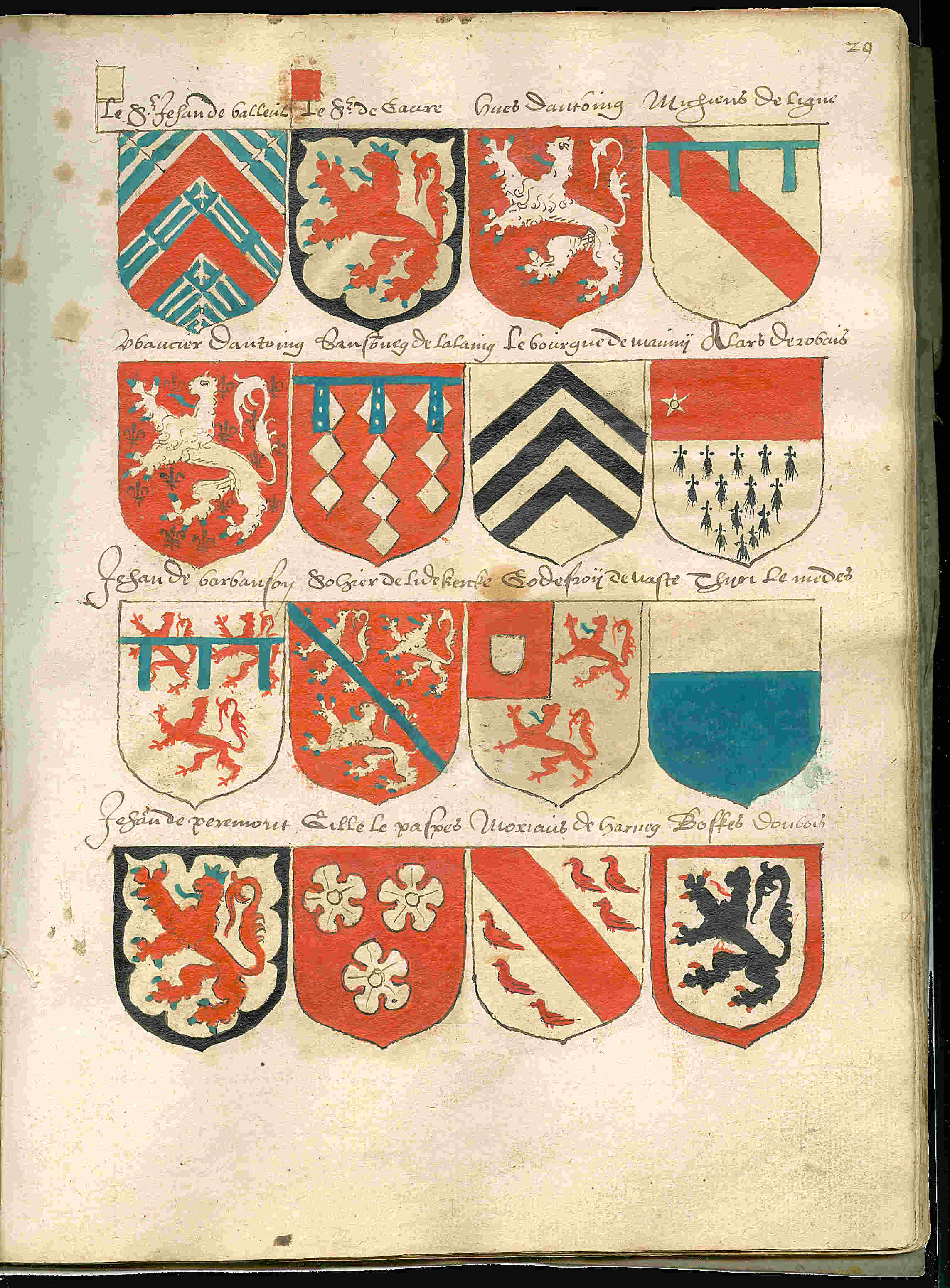 Page 29 from a copy of the Beyeren armorial / Wapenboek Beyeren from ca. 1600. The original Beyeren armorial from 1405 can be viewed at the website of the KB